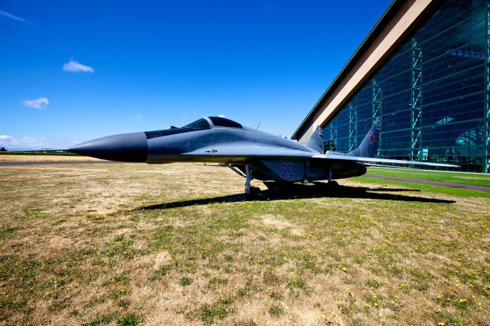 A MiG-29 from the former Moldovan group is on display at the Evergreen Aviation and Space Museum in McMinnville, Oregon, painted in Soviet markings.